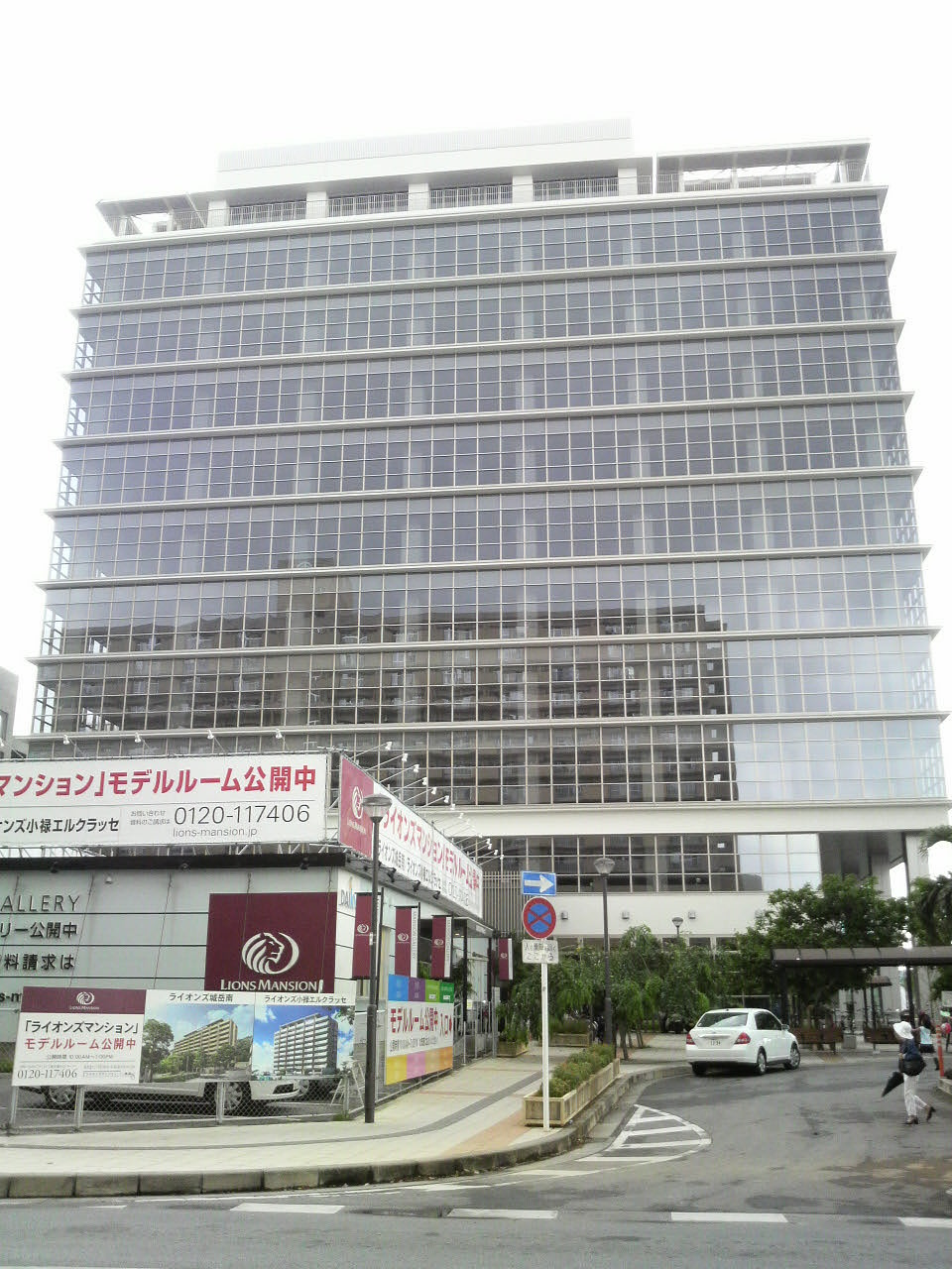 CSK